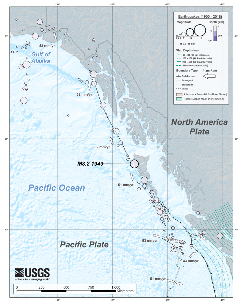 Earthquakes M5.5+ (1900-2016) canada west Circle sizes indicate Magnitude, and colors indicate their depth.